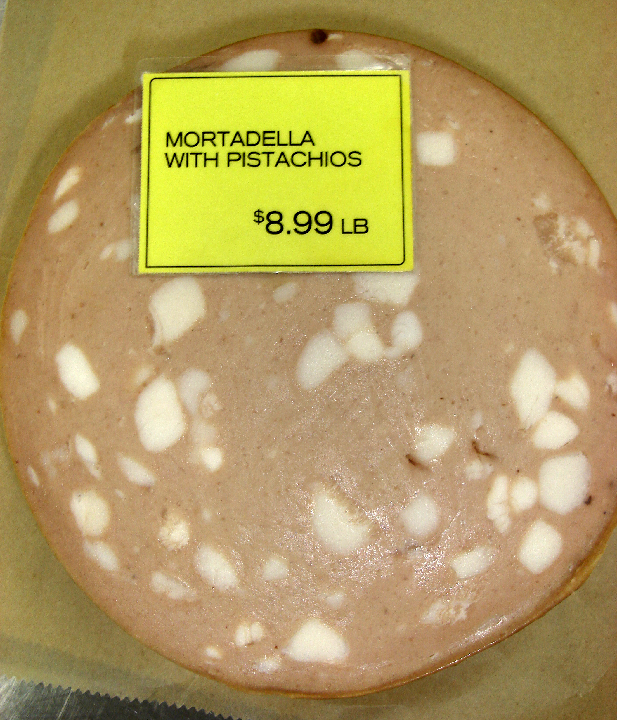 Cross-cut of mortadella with pistachios at New Seasons Market in Portland, OR, USA.